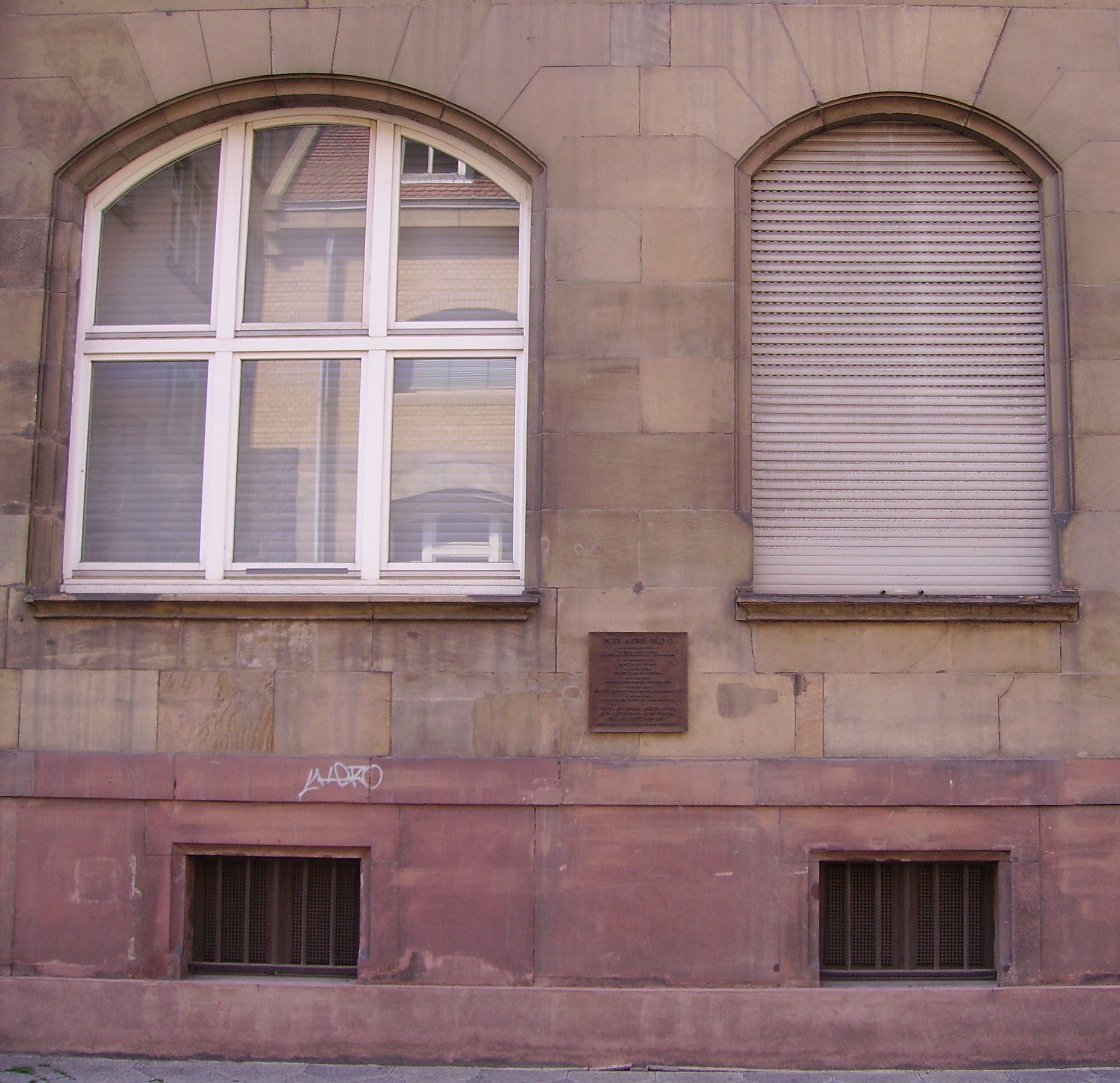 view of Mannheim, Germany